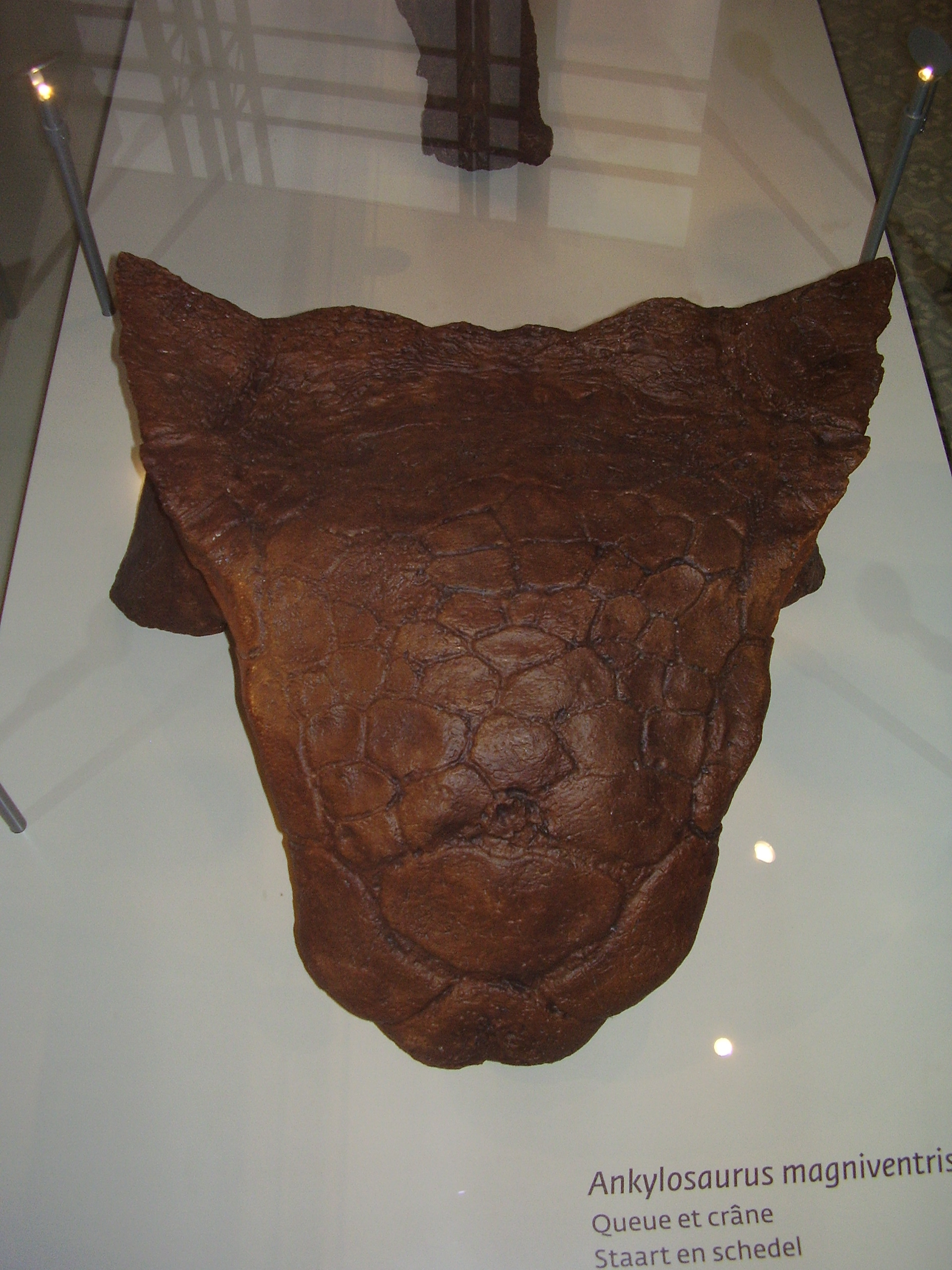 Ankylosaurus magniventris skull